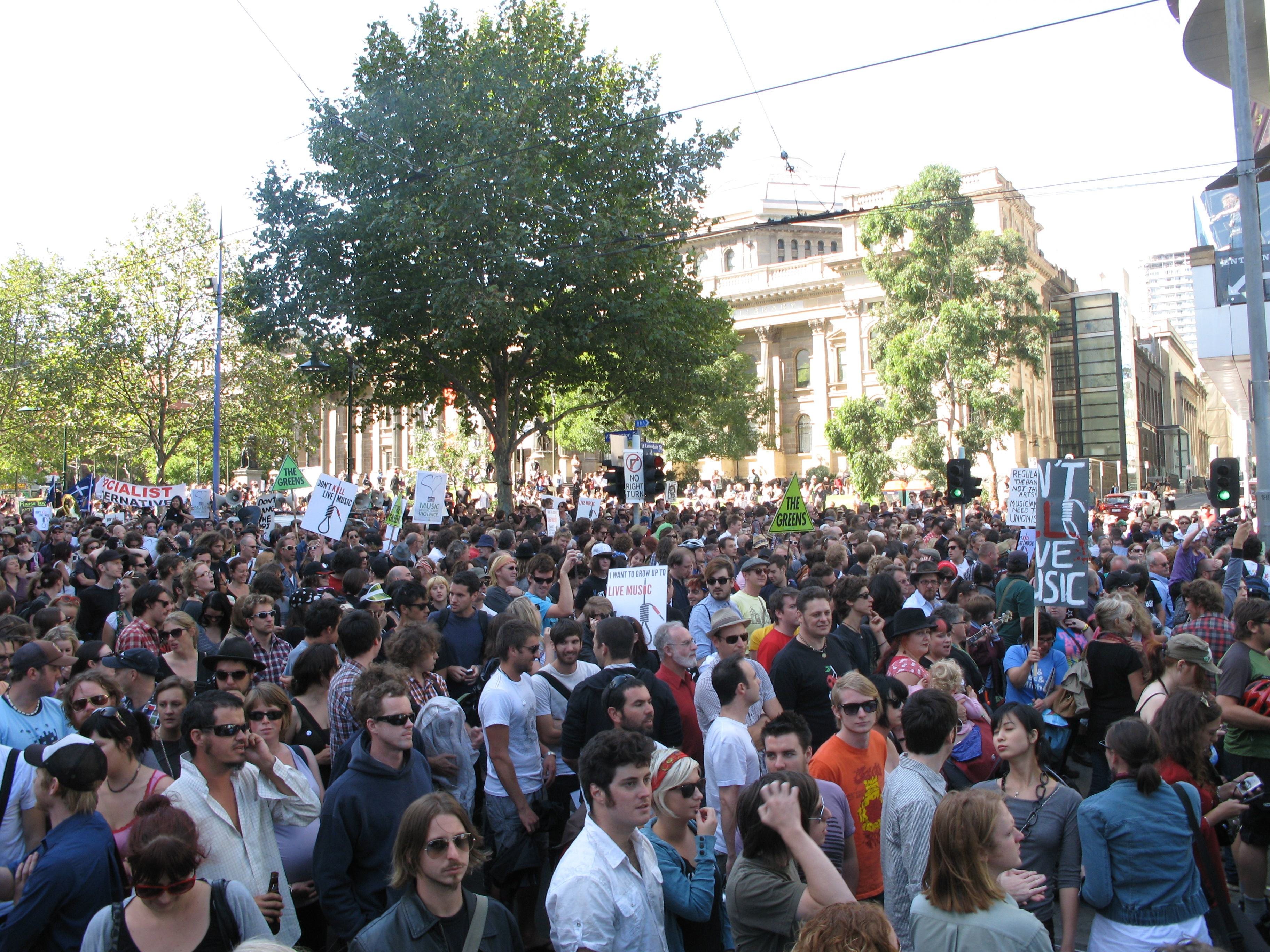 The crowd gathering at the State Library of Victoria on Swanston Street, Melbourne, Australia to begin the Save Live Australian Music (SLAM) rally. Photo taken by Nick carson on February 23, 2010.